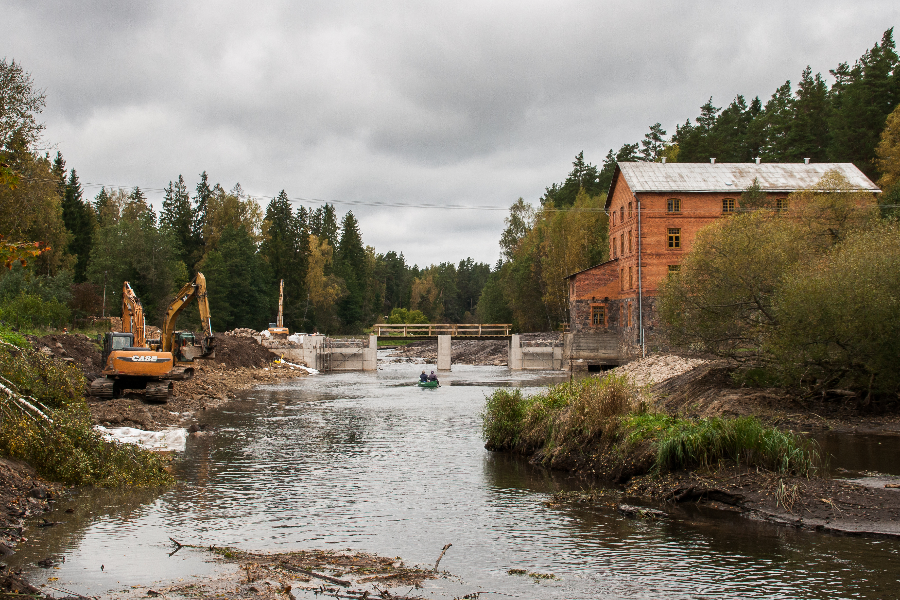 The Kiidjärve watermill after the destruction of the old dam